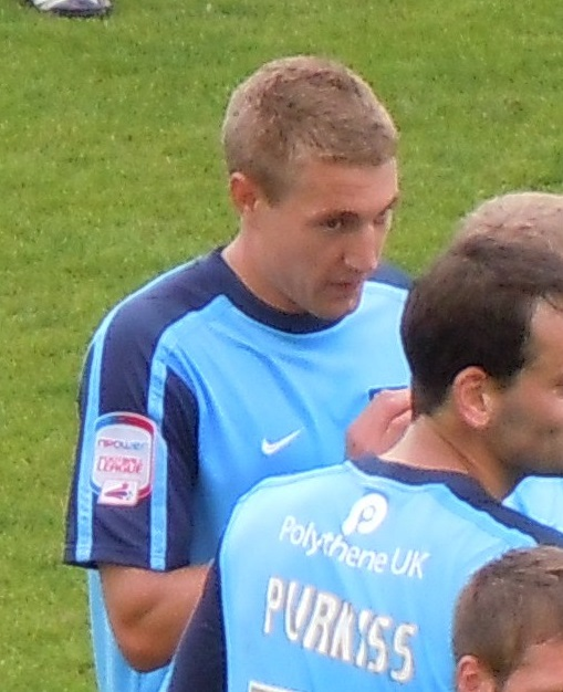 Simon Heslop. Image cropped from original at flickr.